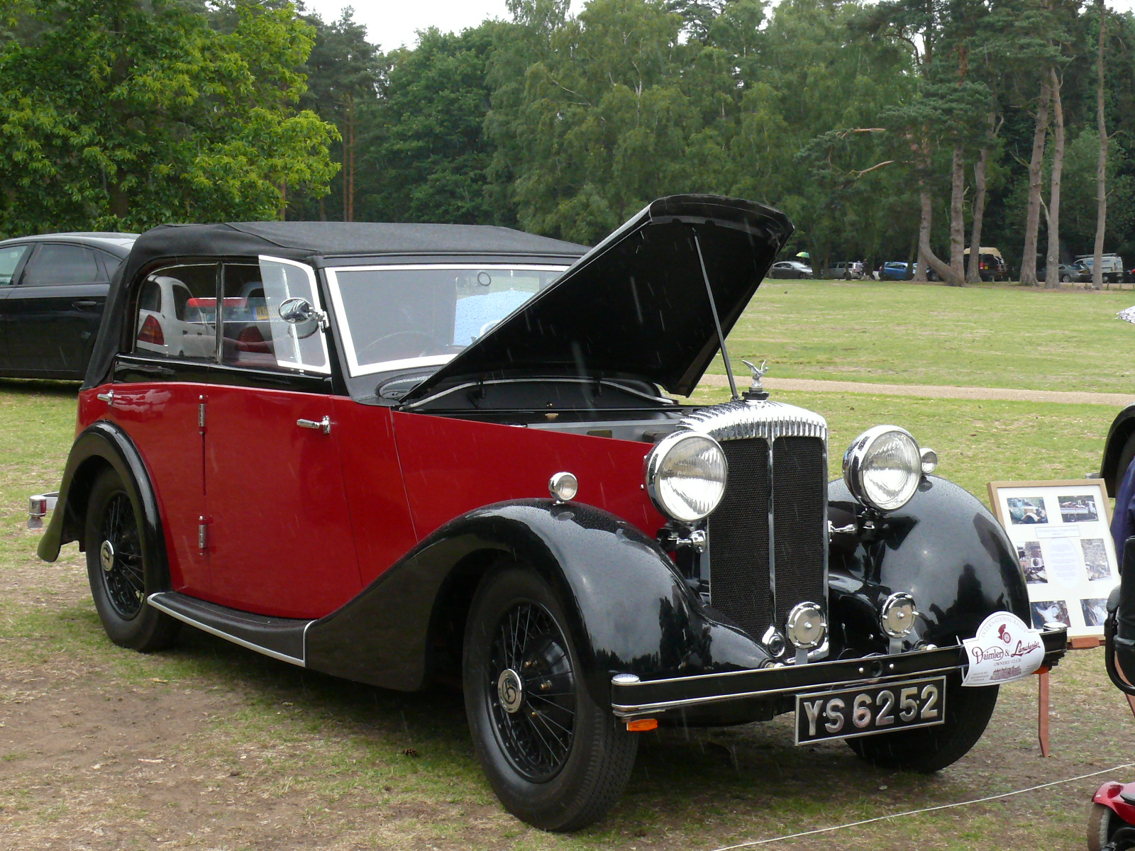 Daimler Fifteen 1936 4-dr all-weather tourer [YS 6252] Wingham body by Martin WalterDaimler & Lanchester Owners Club, International Rally, Queen's Birthday weekend, Sandringham, Norfolk Sunday 12 June 2011 (DVLA) 1939cc, reg 5 February 1936